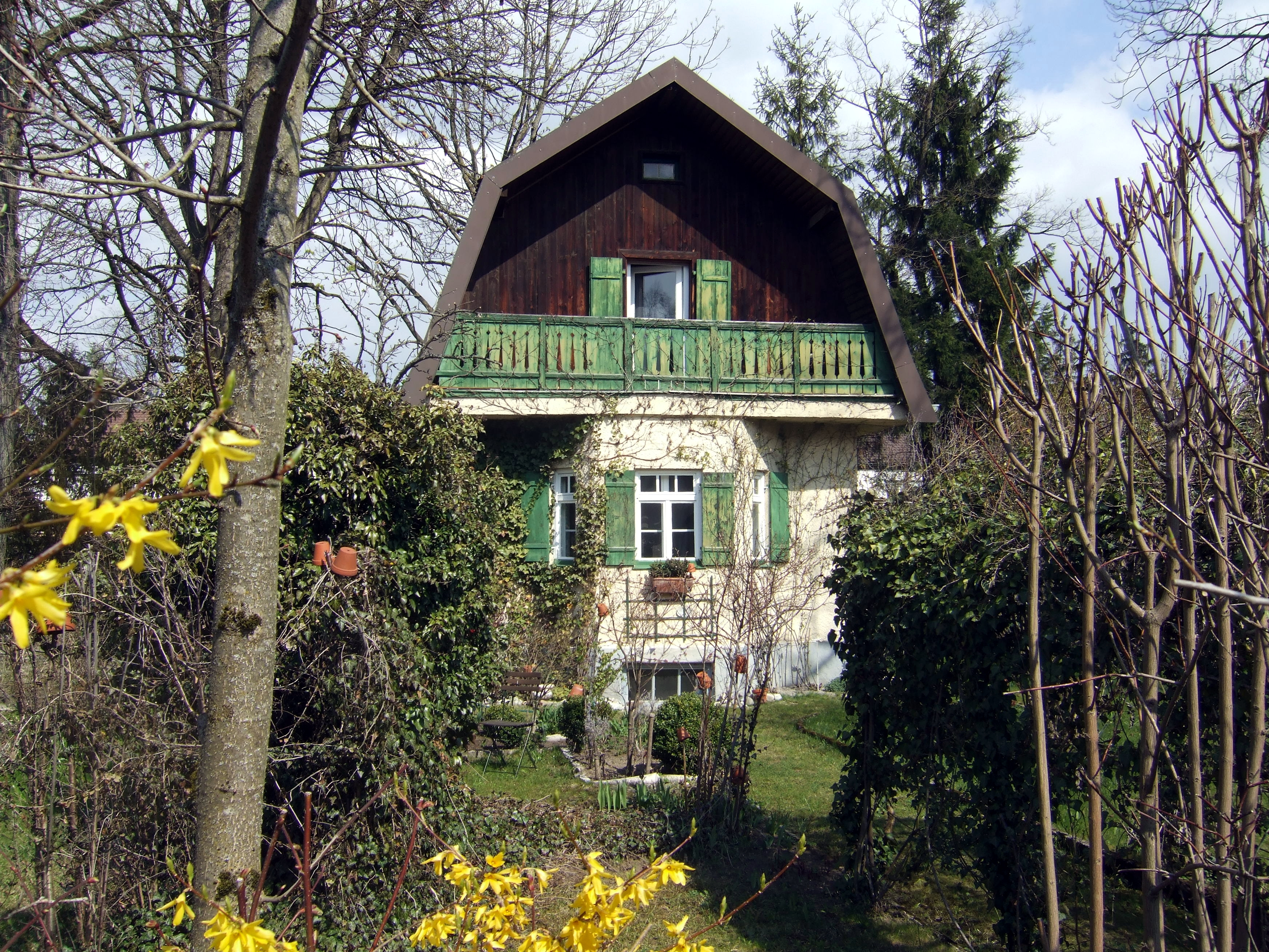 Ottobrunn (5 Bahnhofstraße): Mansard-roofed building from the early years of Ottobrunn